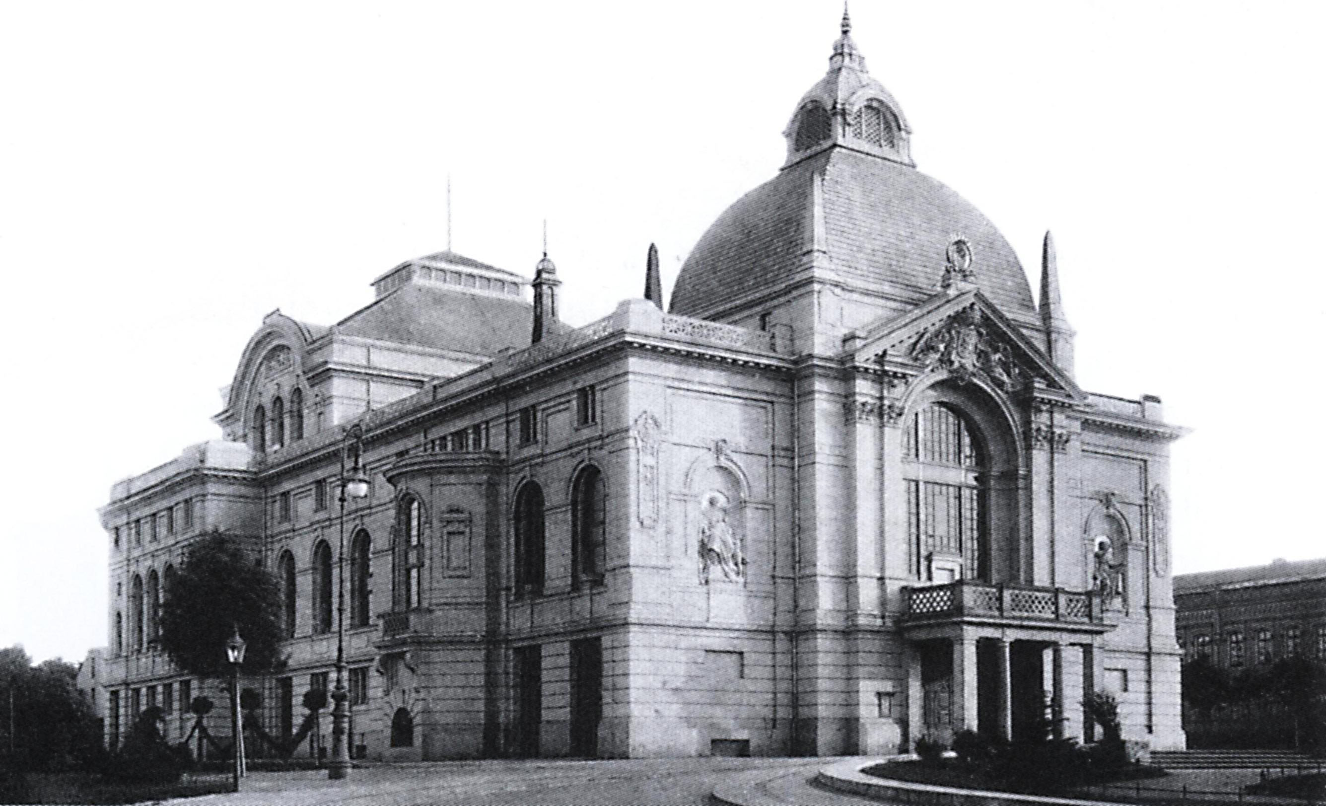 Rostock Theater; already destroyed during 1942 allied bombings